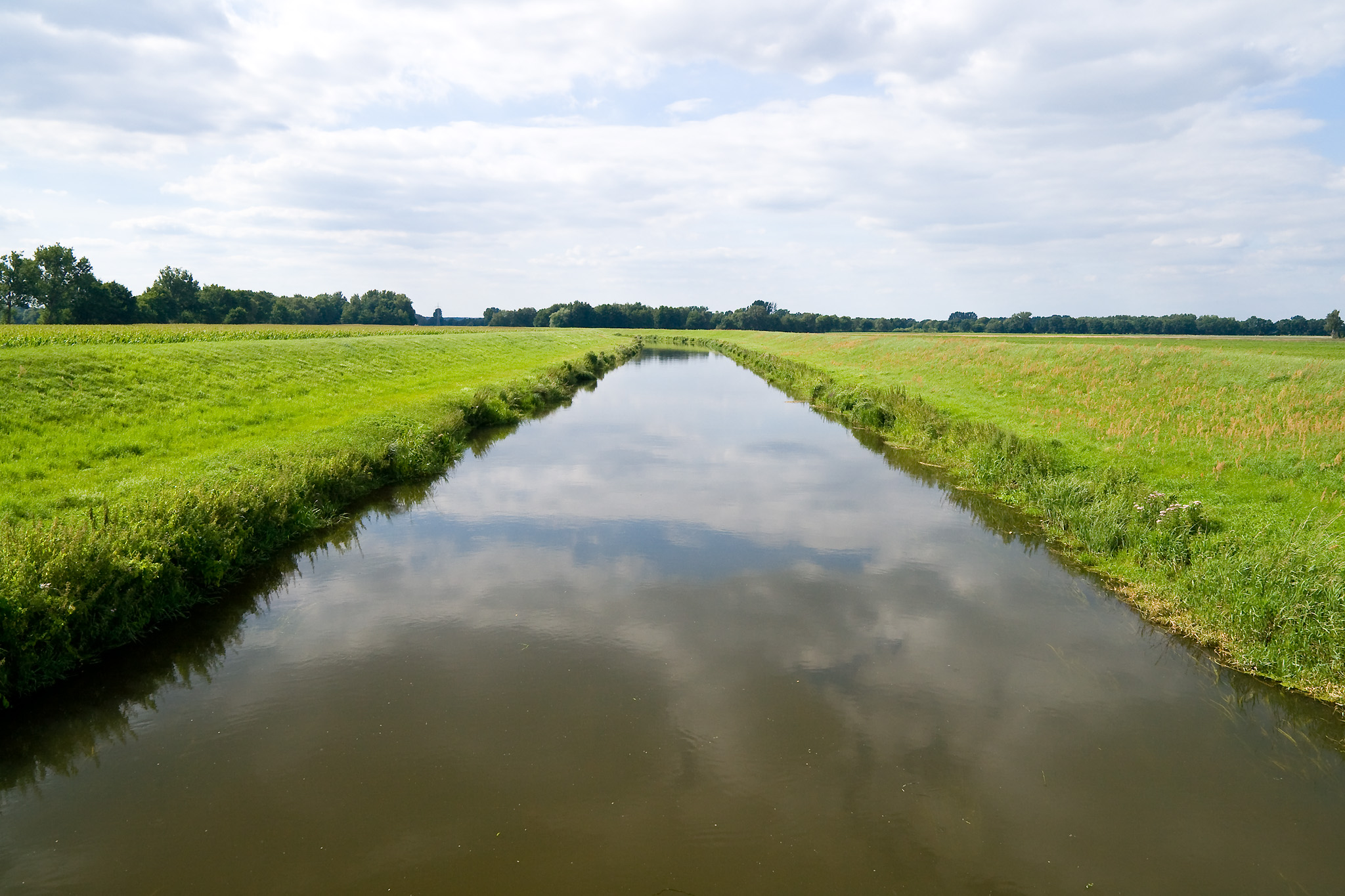 Jeetzel River near Gross Heide in the district Luechow-Dannenberg in Lower Saxony, Germany.